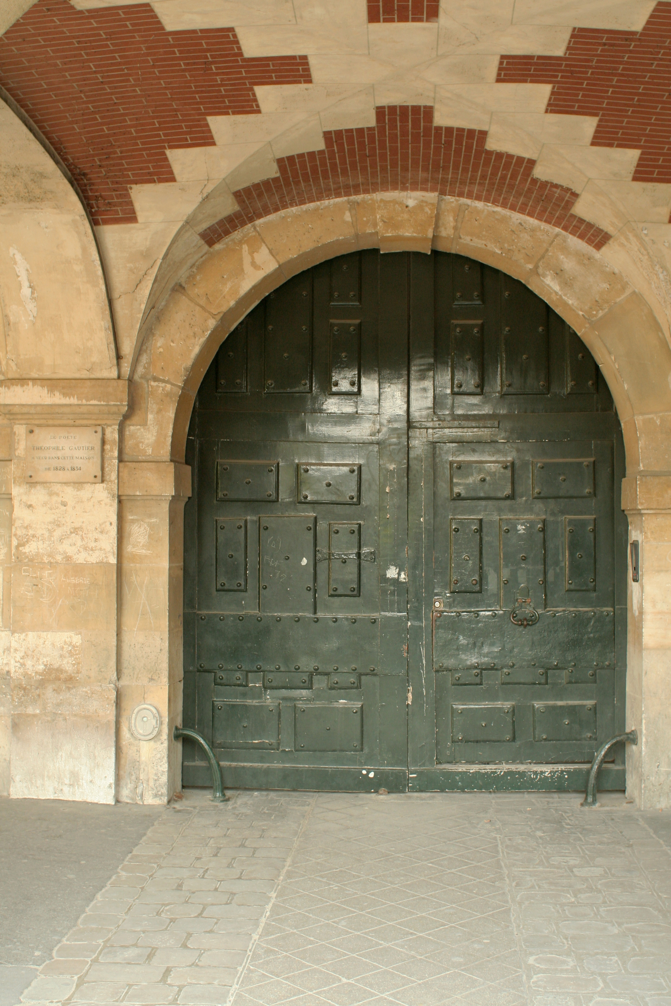 Door of 8 Place des Vosges, Paris.